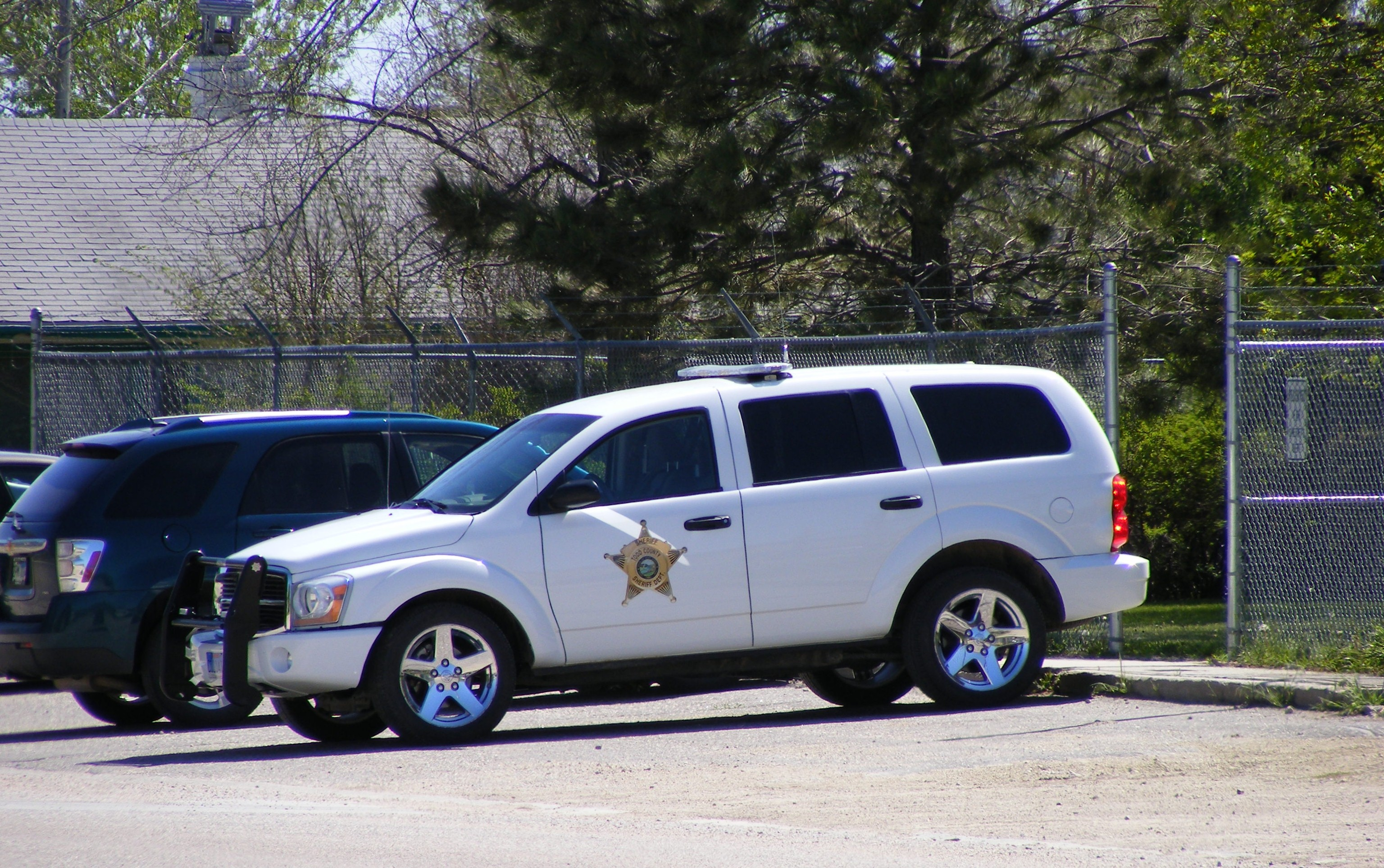 A Dodge Durango belonging to the Sheriff of Todd County.